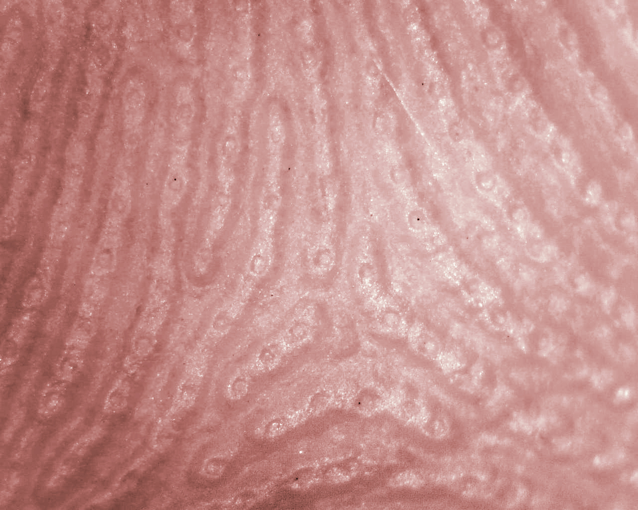 Optical microscopy image of a human fingerprint of the distal phalanx (index finger). The epidermal ridges as well as the sweat gland pores can be observed.